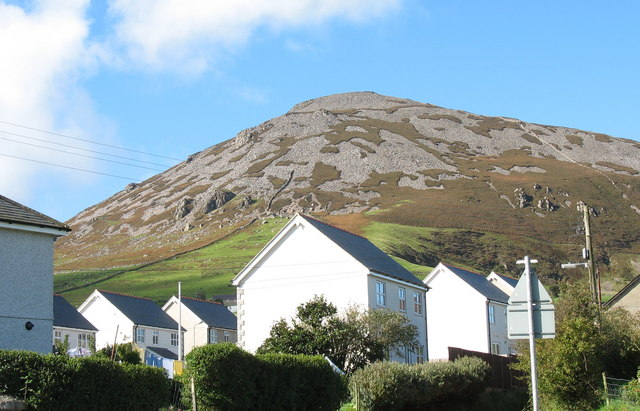 New Private Housing Development at Llanaelhaearn